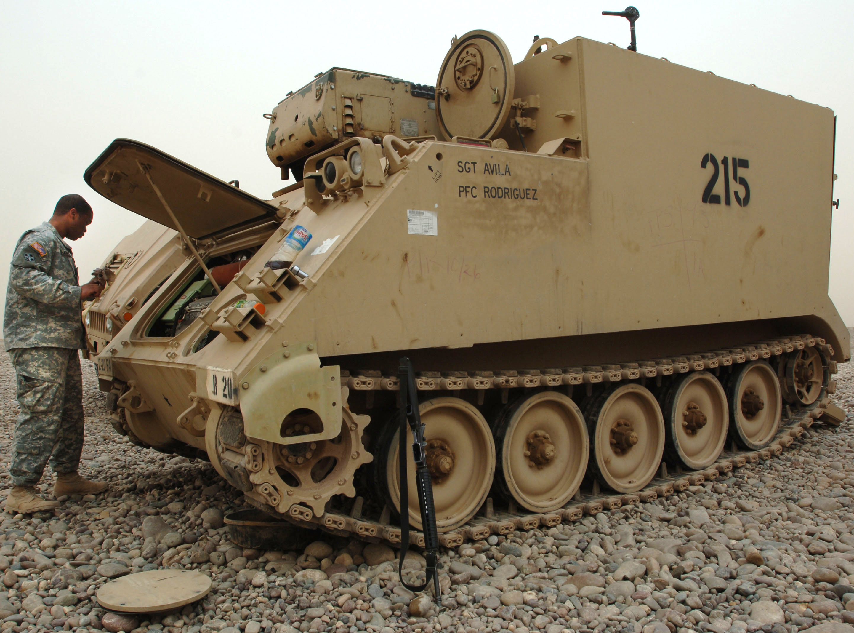 Staff Sgt. Cory Smith, from Battery B, 2nd Battalion, 20th Field Artillery Regiment, 4th Infantry Division, performs maintenance on the engine of his M577 command vehicle' at Forward Operating Base Remagen near Tikrit, Iraq.